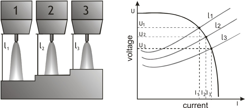 Arc characteristics